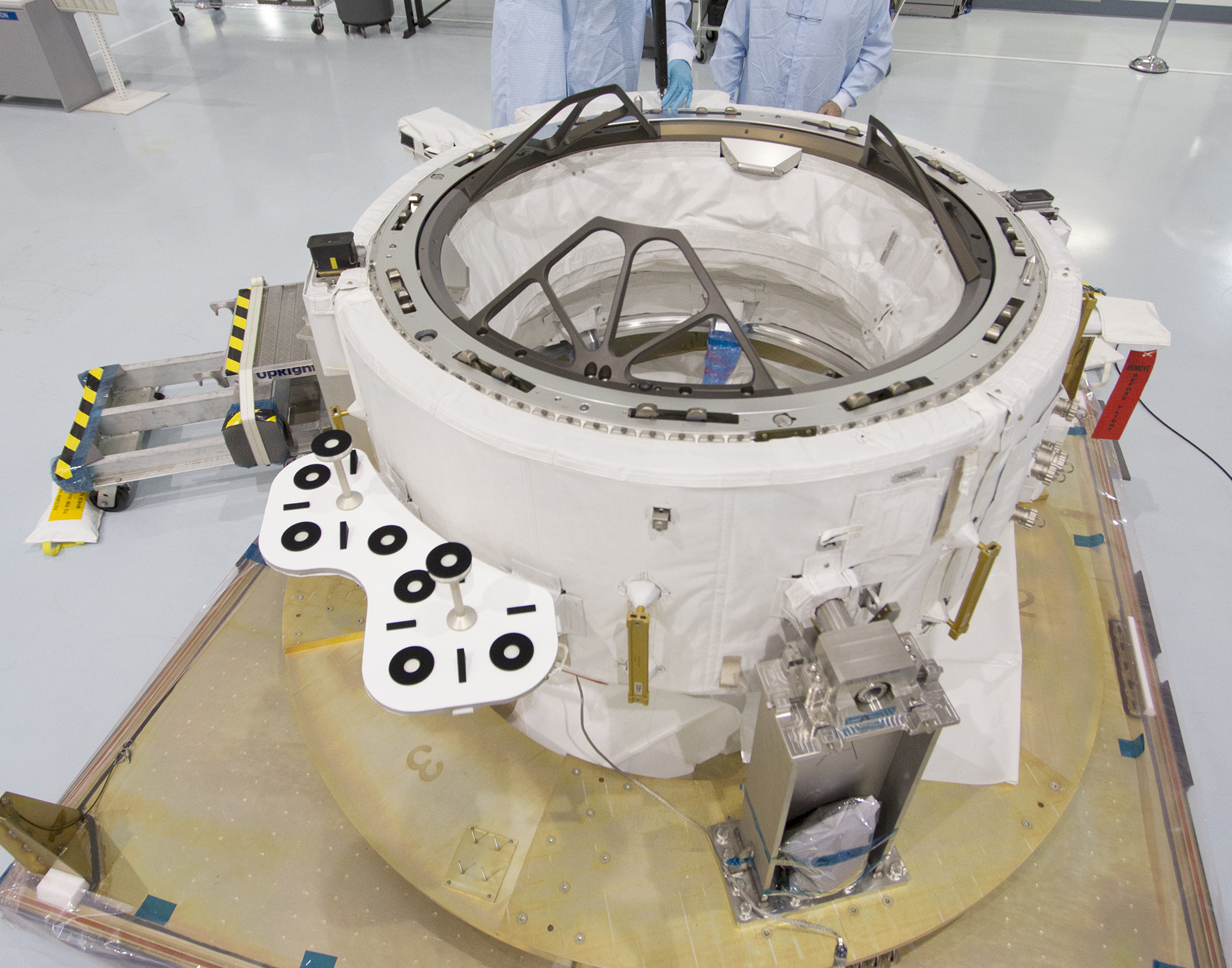 Engineers in the Space Station Processing Facility measure specifics of the International Docking Adapter. The adapter will be launched on CRS-7 and placed on the International Space Station and used by future crewed vehicles when they arrive at the orbiting laboratory.